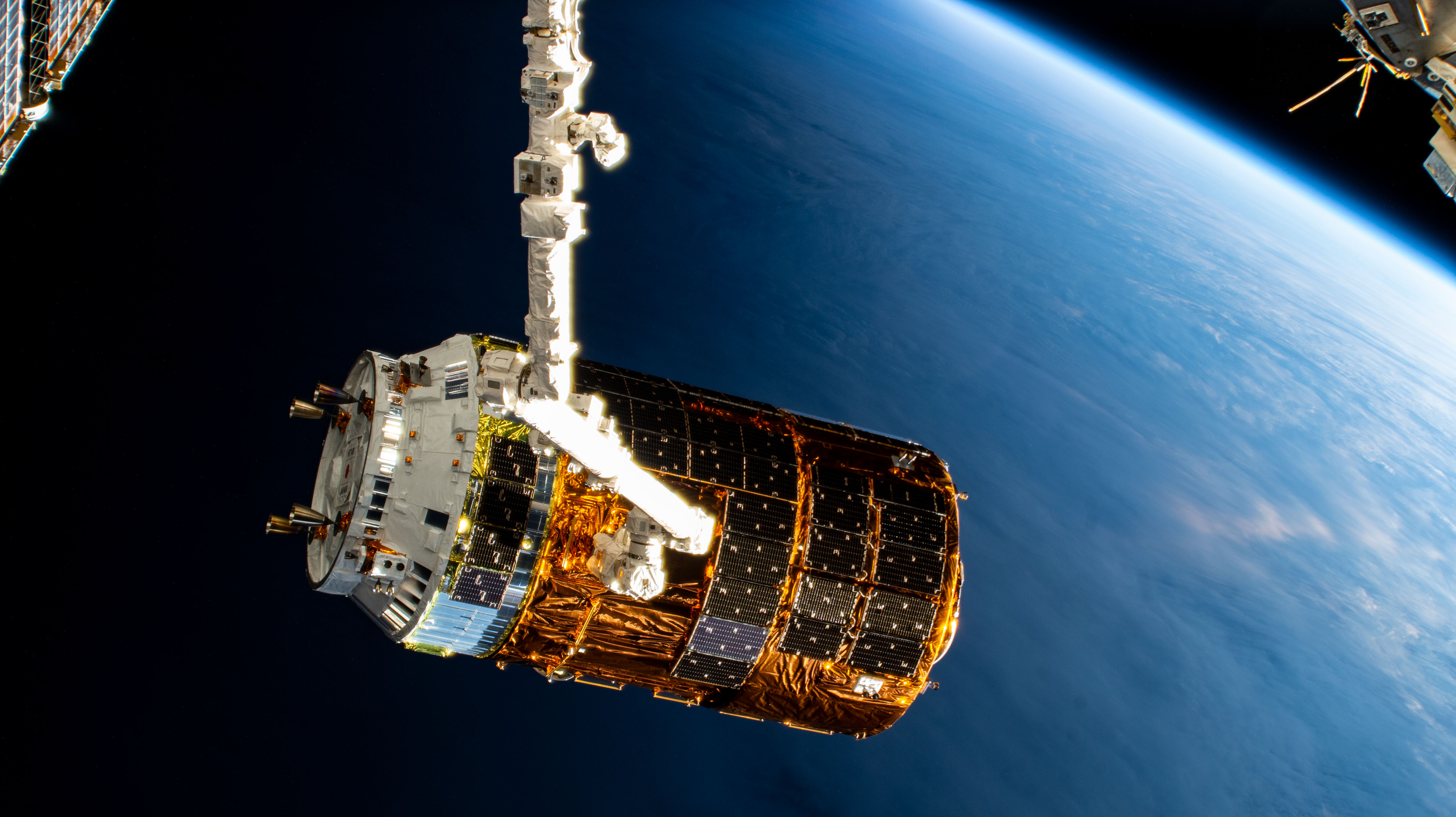 Japan's cute-looking H-II Transfer Vehicle-8 (HTV-8) is pictured in the grips of the Canadarm2 robotic arm as the International Space Station flies into an orbital sunrise, on November 1, 2019